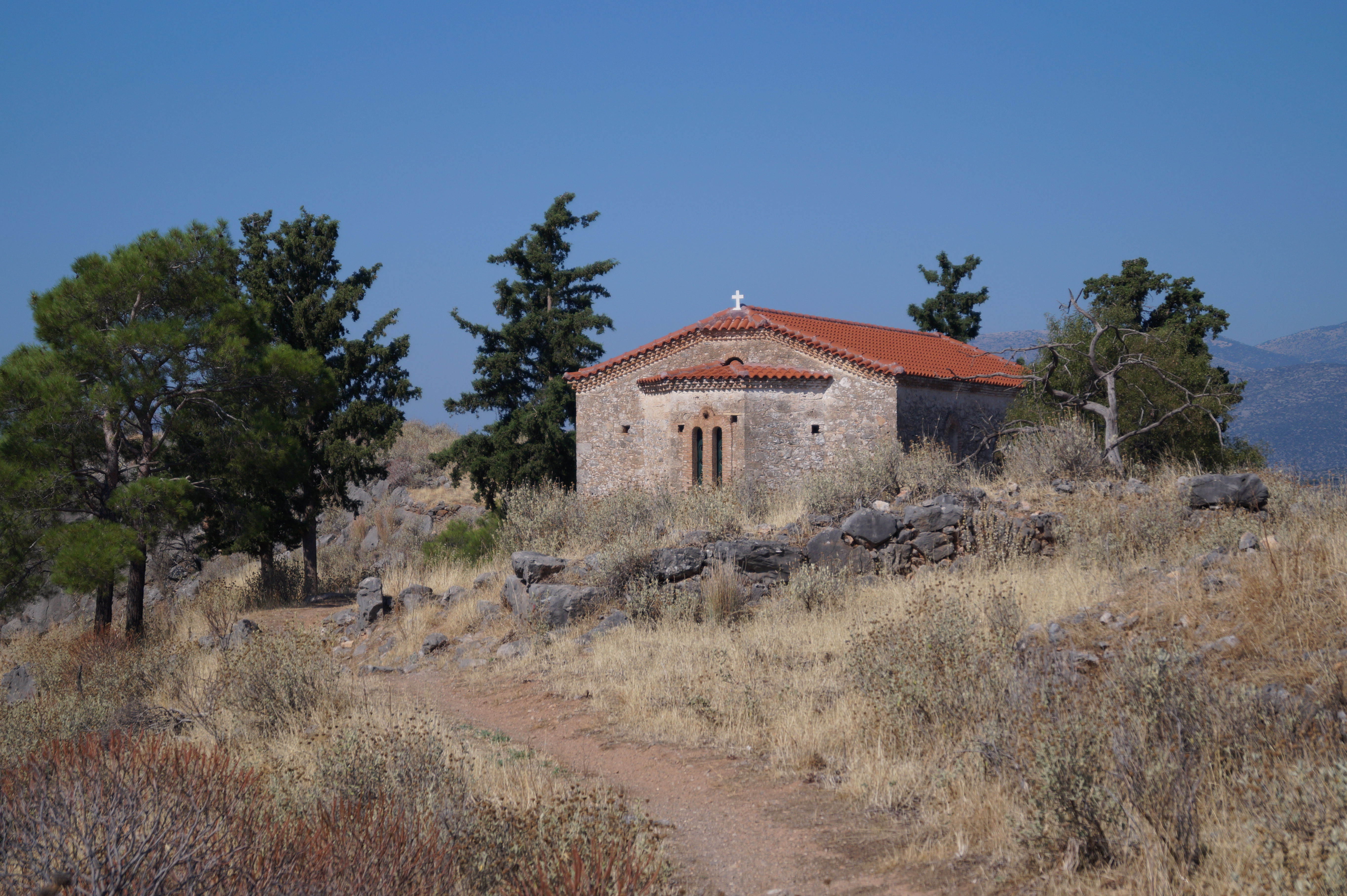 Chrisso, Fokida, Greece: Church of Agios Georgios on Stefani hill. In front there is the city wall of the mycenaean Krisa.